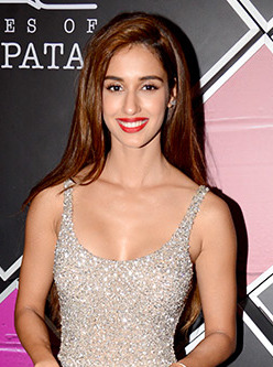 Disha Patani snapped at the M.A.C Cosmetics event, 2019 (2)